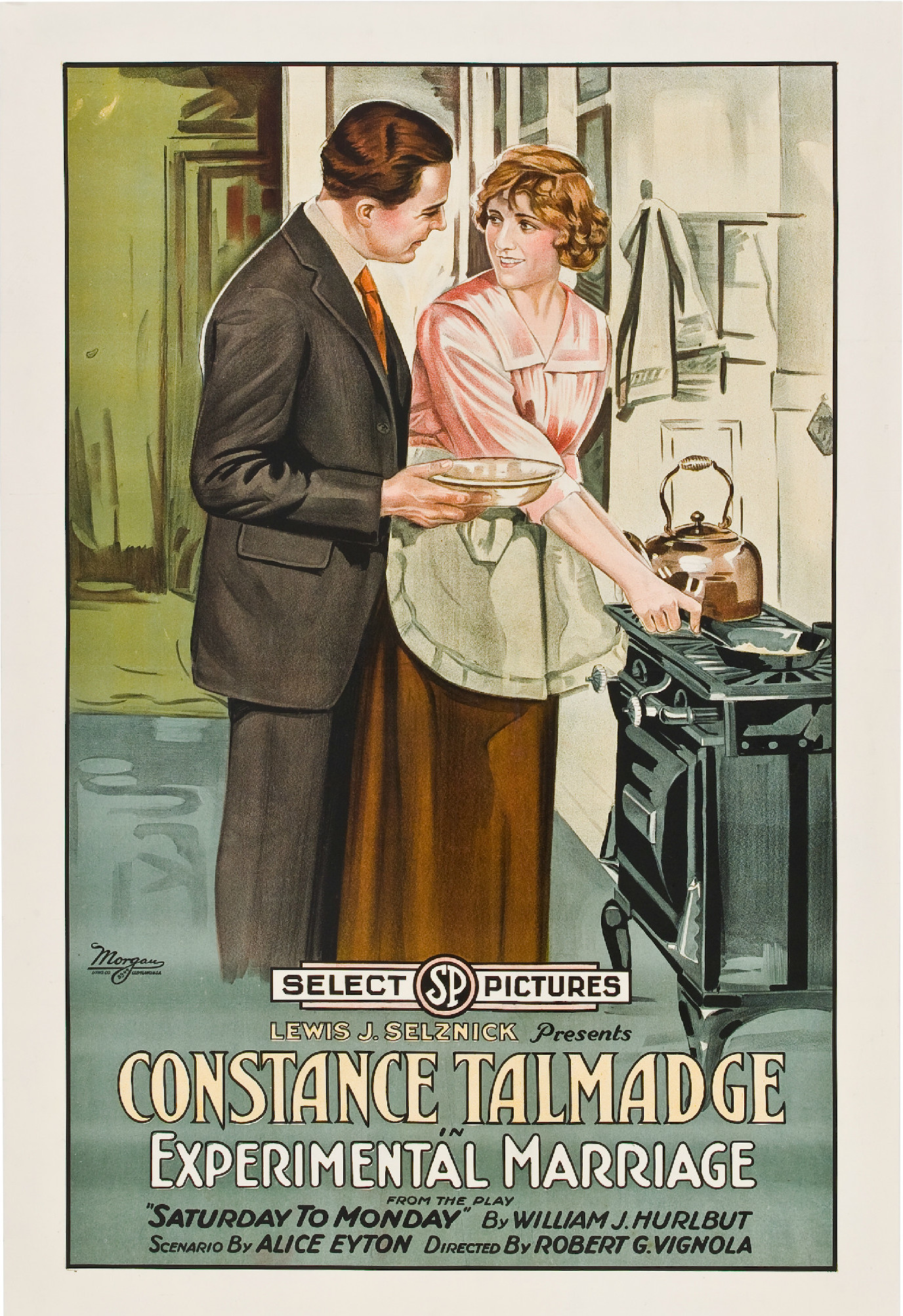 Poster for the American film Experimental Marriage (1919) with Constance Talmadge and Harrison Ford.